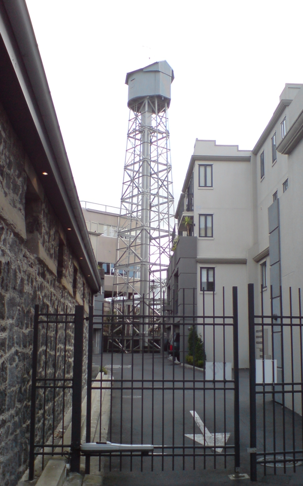 The shot tower of the Colonial Ammunition Company in Auckland City, New Zealand. New Zealand Historic Places Trust Register number: 87.